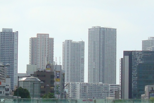 Buildings in Tokyo's Shinonome district viewed from Toyosu, Koto city